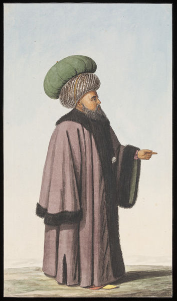 The Reis Efendi, or Minister for Foreign Affairs of the Ottoman Empire